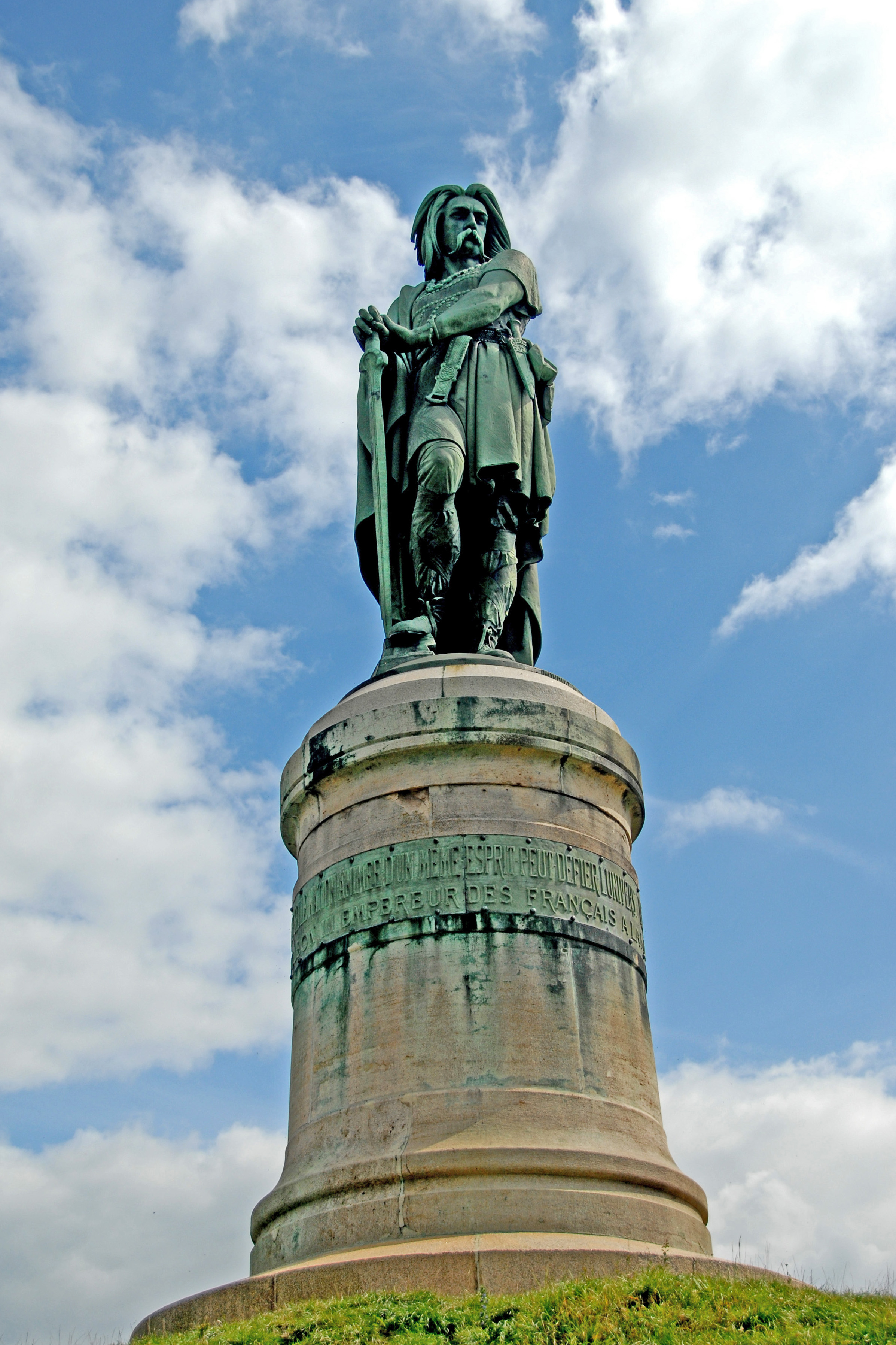 Vercingetorix Memorial in Alesia